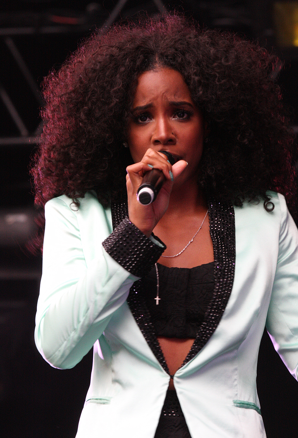 Kelly Rowland Performs at Supafest 3 Sydney, Australia 2012.